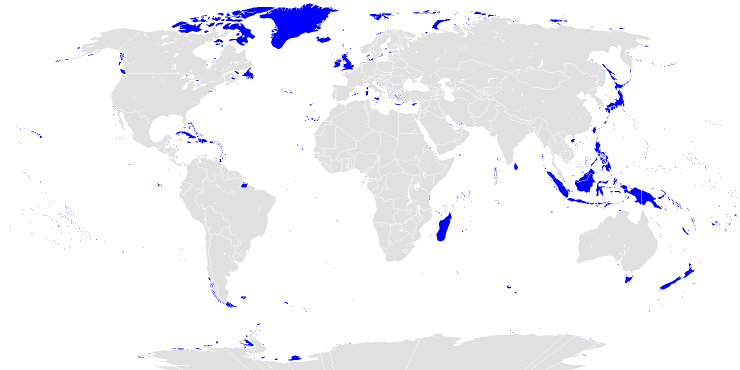 Map of the world, locating islands